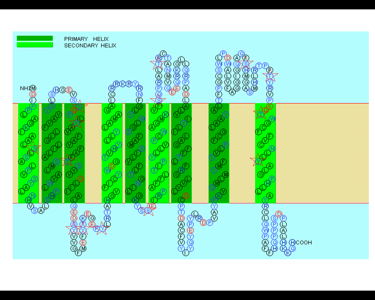 This image shows the topology of TM6SF2 protein as predicted by SOSUI [1] The red stars indicate probable phosphorylation sites.